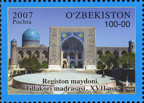 Stamps of Uzbekistan, 2007